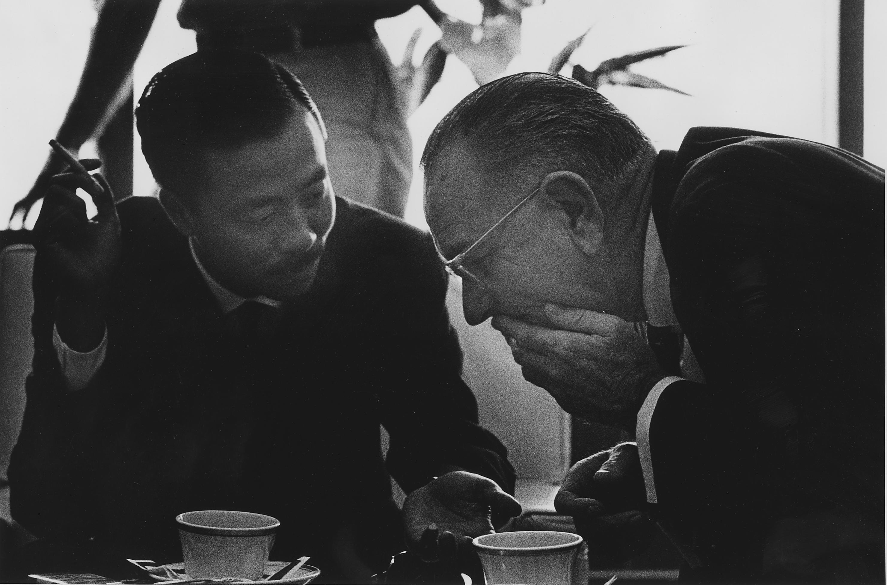 Vice President Nguyen Cao Ky (South Vietnam) and President Lyndon B. Johnson in Hawaii.